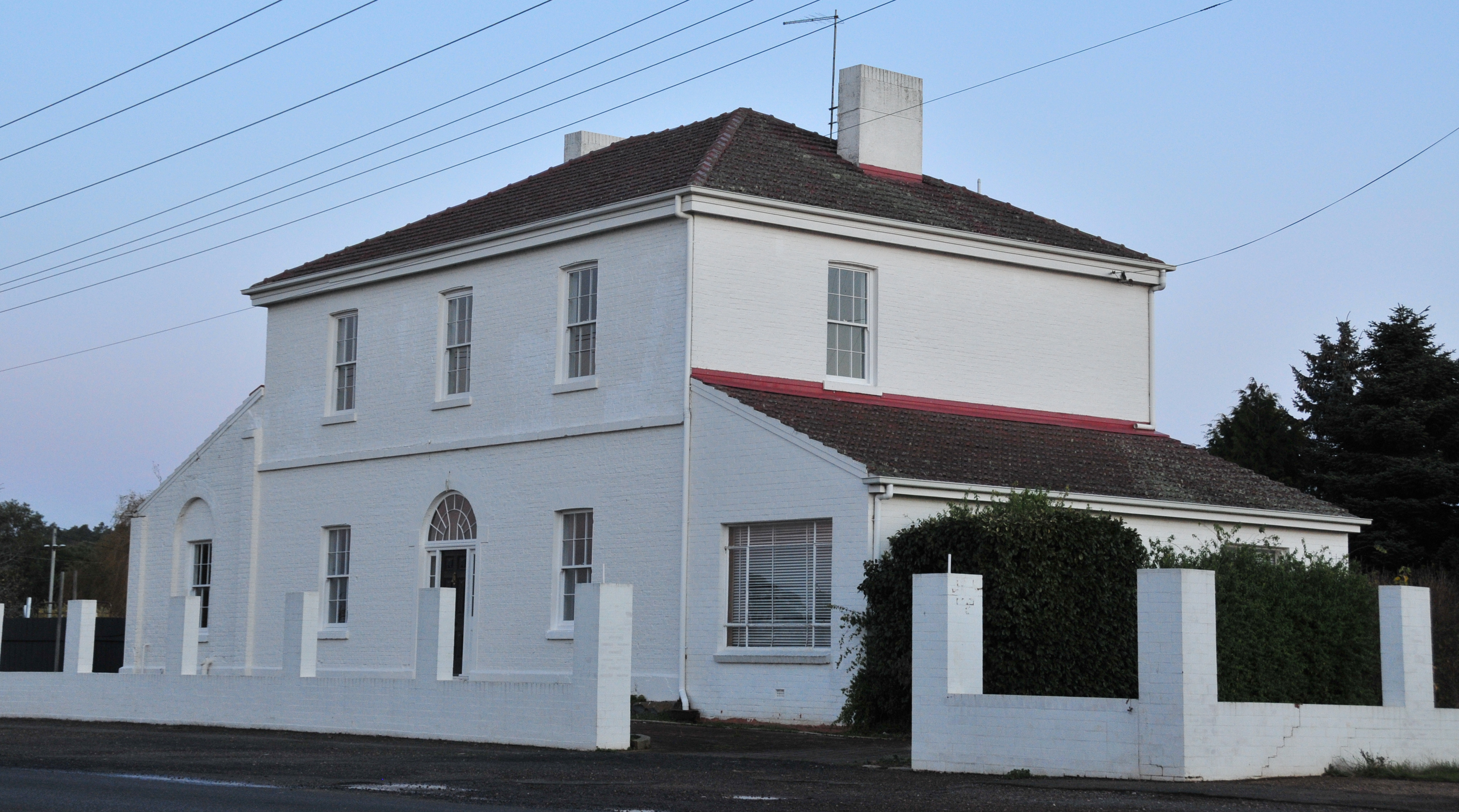 Two storey house on the main road in Exton, Tasmania